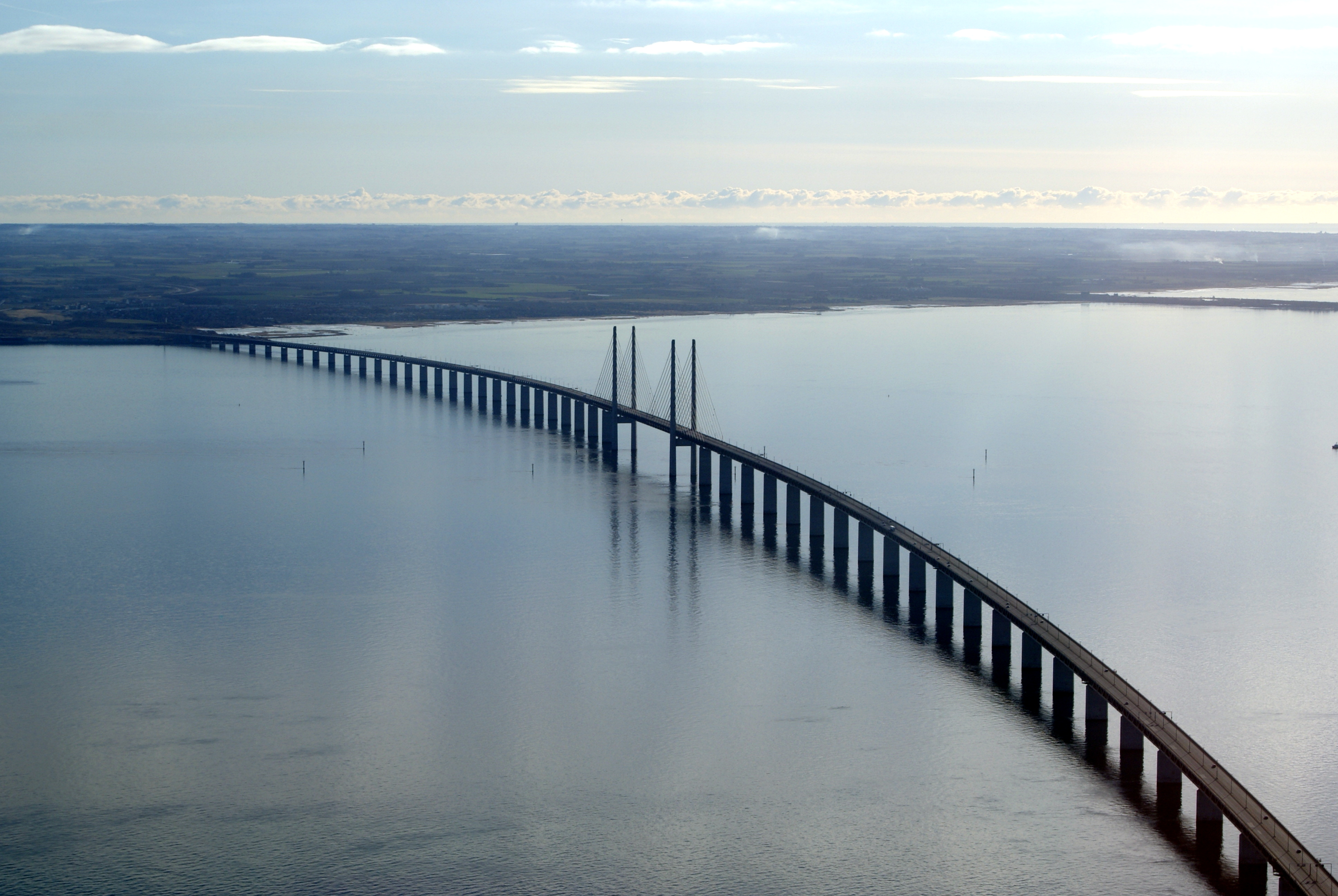 The Øresundbridge, seen from north-west.